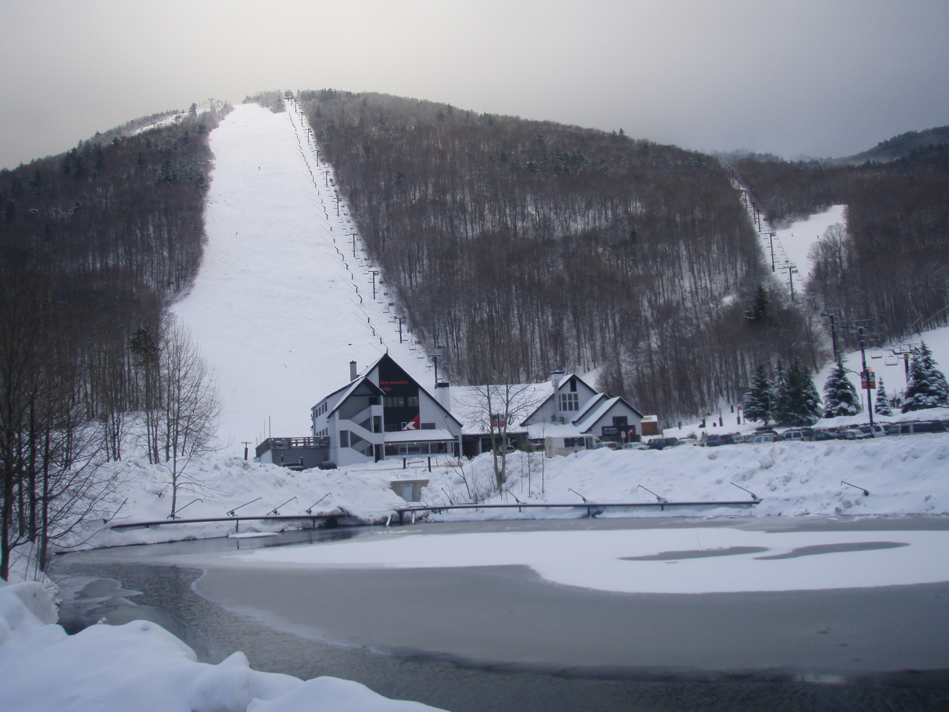 Bear Mountain in Killington Ski Resort, Vermont